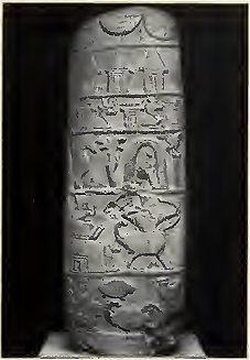 Boundary-stone sculptured with emblems of the gods; reign of Nebuchadrezzar I. Photo, Mansell & Co.Illustration from 1911 Encyclopædia Britannica, article Babylonia and Assyria.